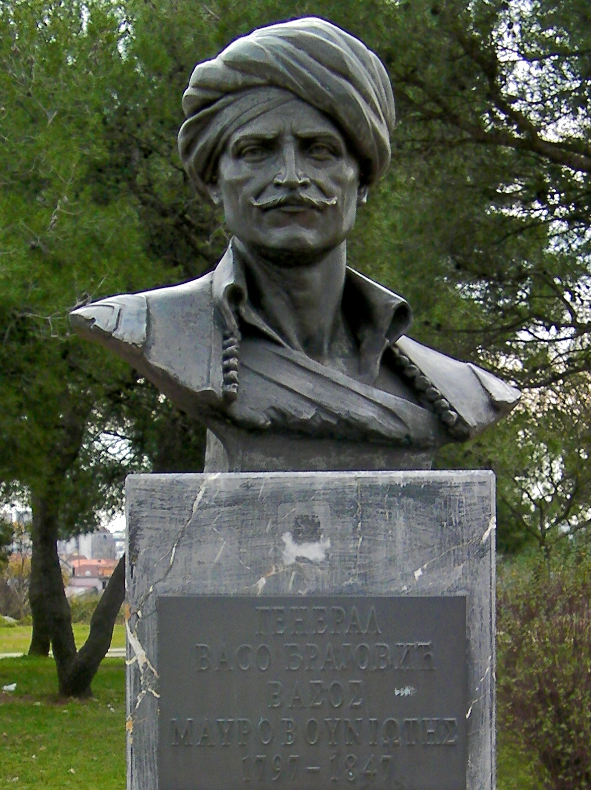 Monument to Vasos Mavrovouniotis/Vaso Brajović in Podgorica